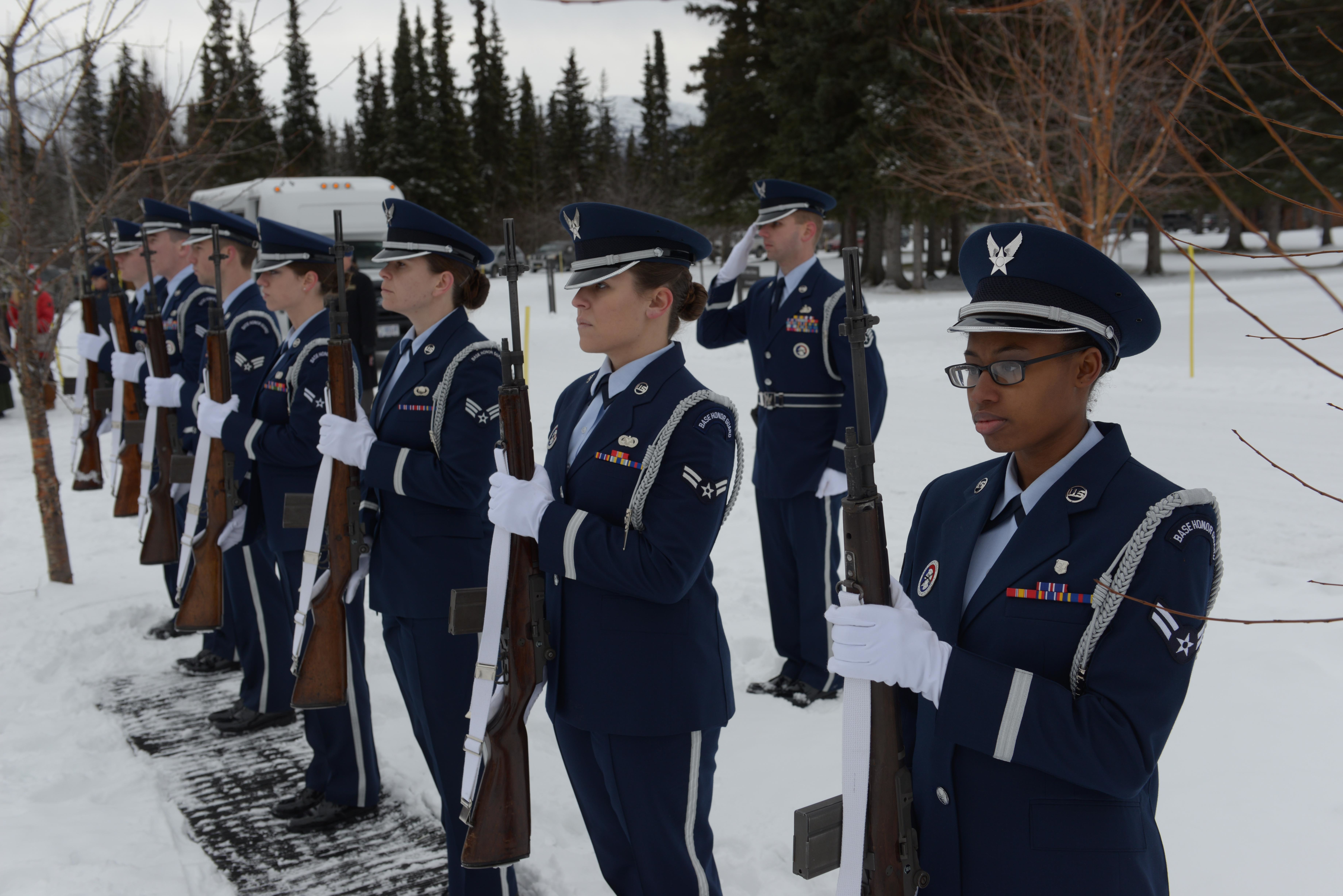 The Joint Base Elmendorf-Richardson Honor Guard, presents arms during the Royal Canadian Armed Forces Remembrance Day Cermeony at Fort Richardson National Cemetery on Joint Base Elmendorf-Richardson, Alaska, Nov. 11. Hundreds of veterans and their families attended the ceremonies, which included music, speeches and wreath-layings. (U.S. Air Force photo by Staff Sgt. William Banton) Unit: Joint Base Elmendorf-Richardson Public Affairs